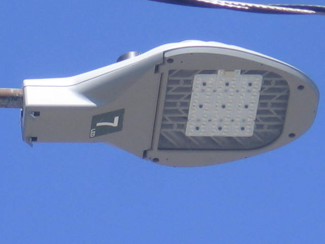 History of street lighting